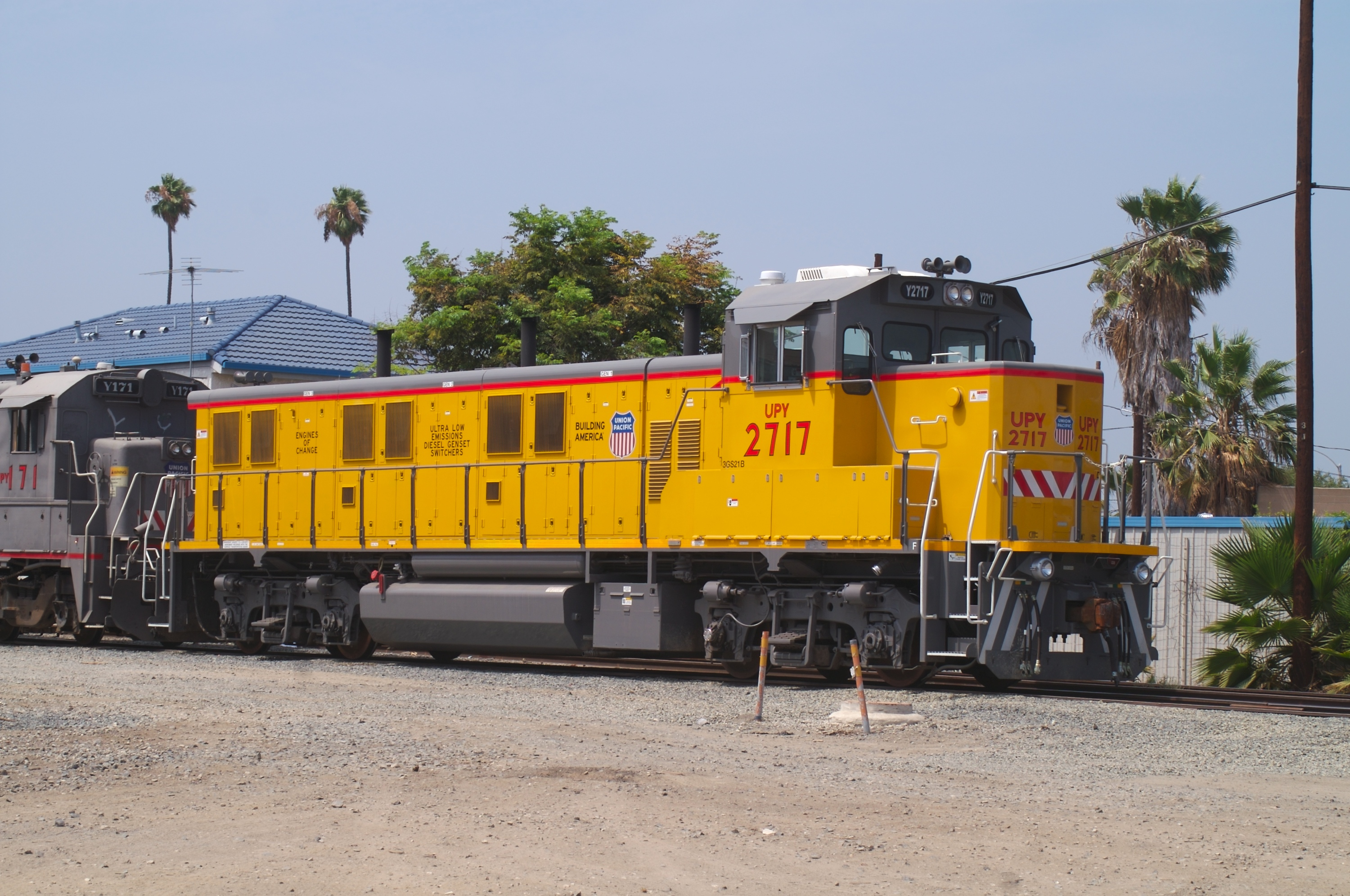 NRE 3GS21B locomotive at Anaheim, California, USA.